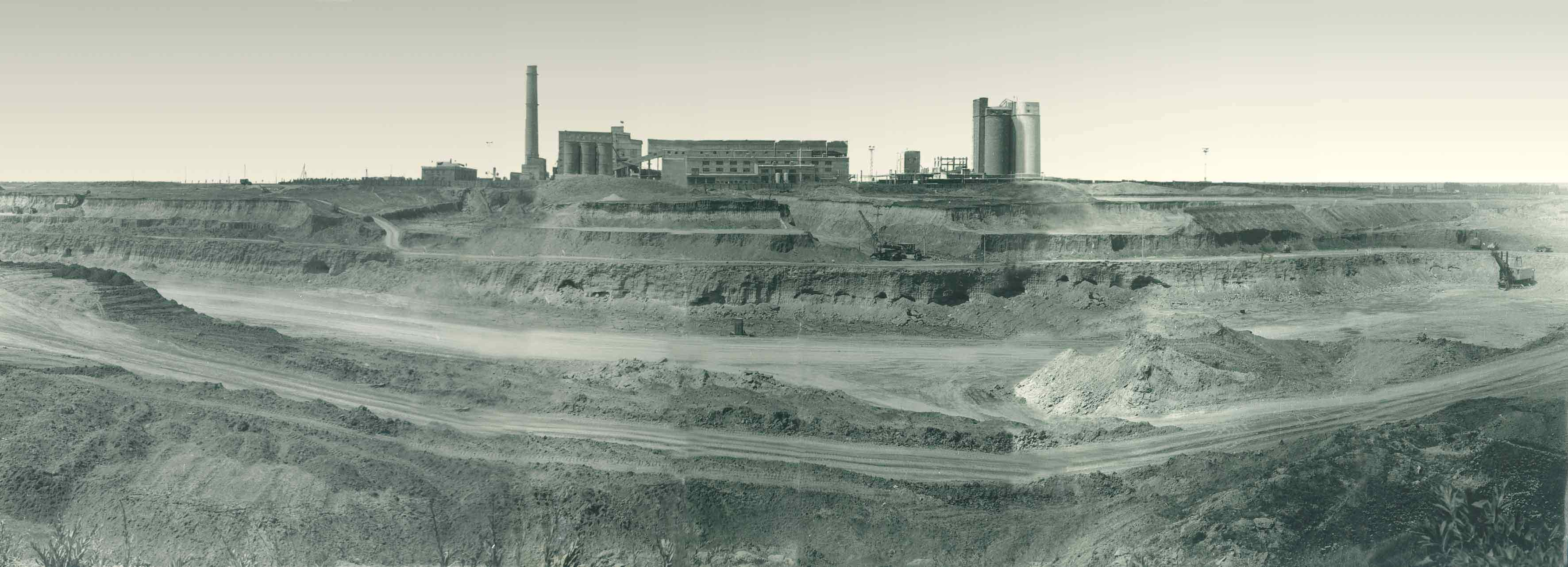 Odessa cement plant quarry